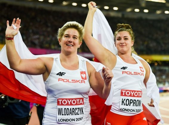 Anita Włodarczyk and Malwina Kopron during the 2017 World Championships in Athletics